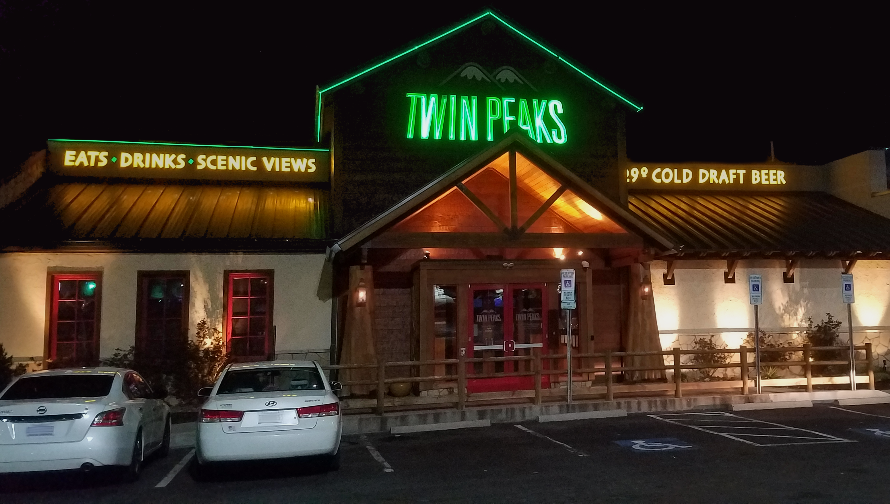 The exterior of a Twin Peaks restaurant in Winston-Salem, North Carolina at night